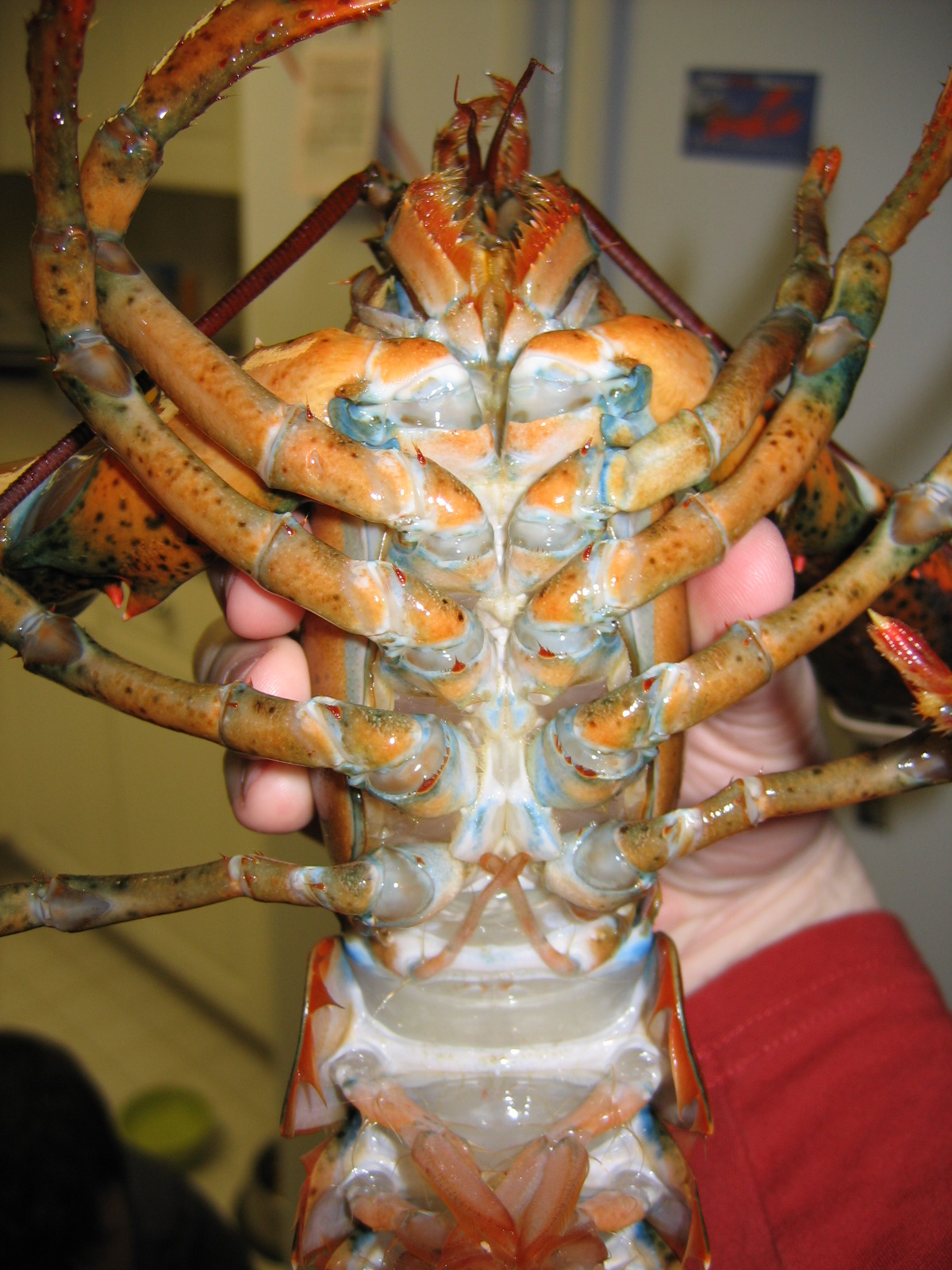 Underbody of live lobster shipped for consumption in the United States.